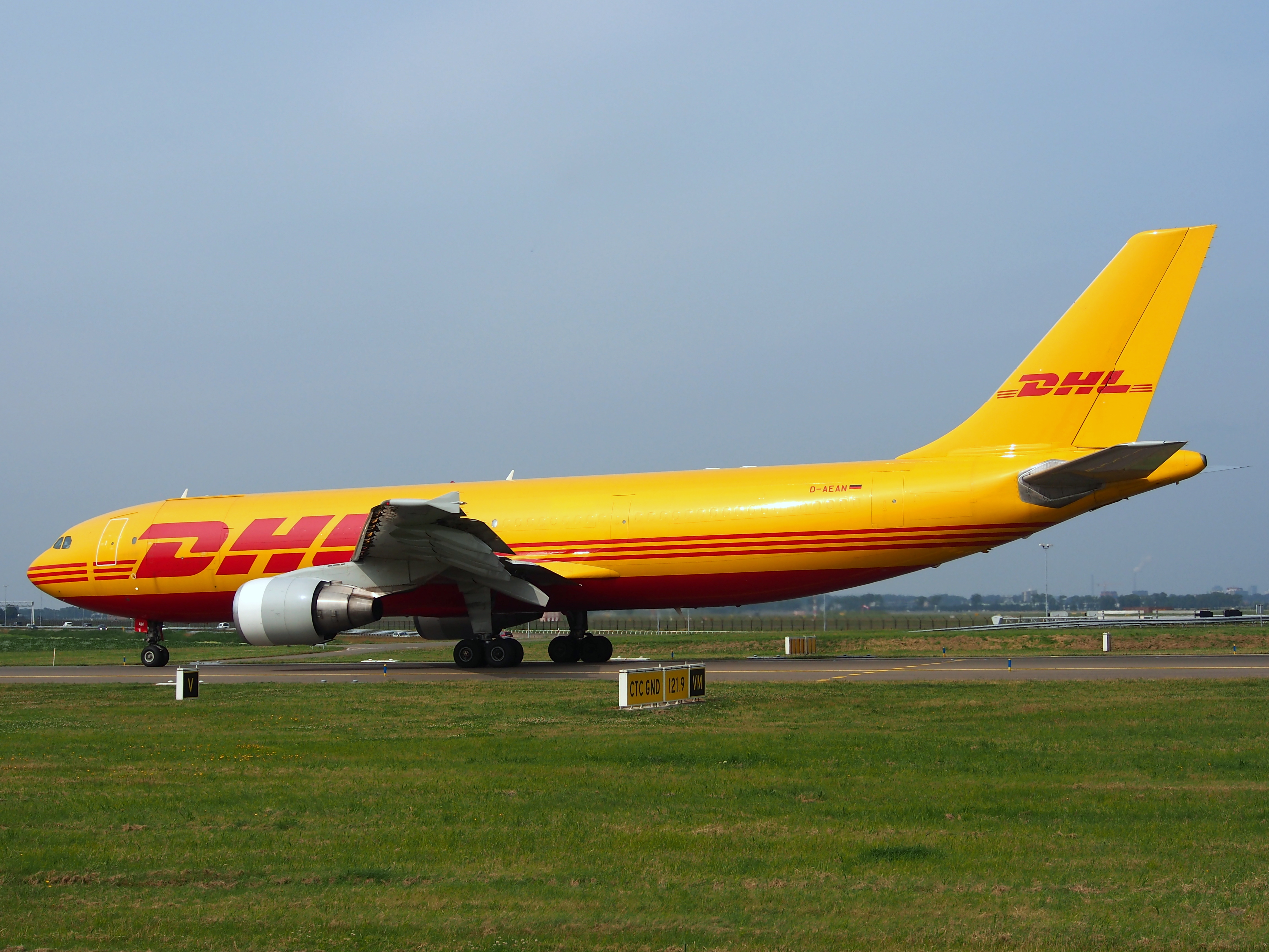 Photographed at Schiphol, Amsterdam airport, (IATA: AMS, ICAO: EHAM), the Netherlands.